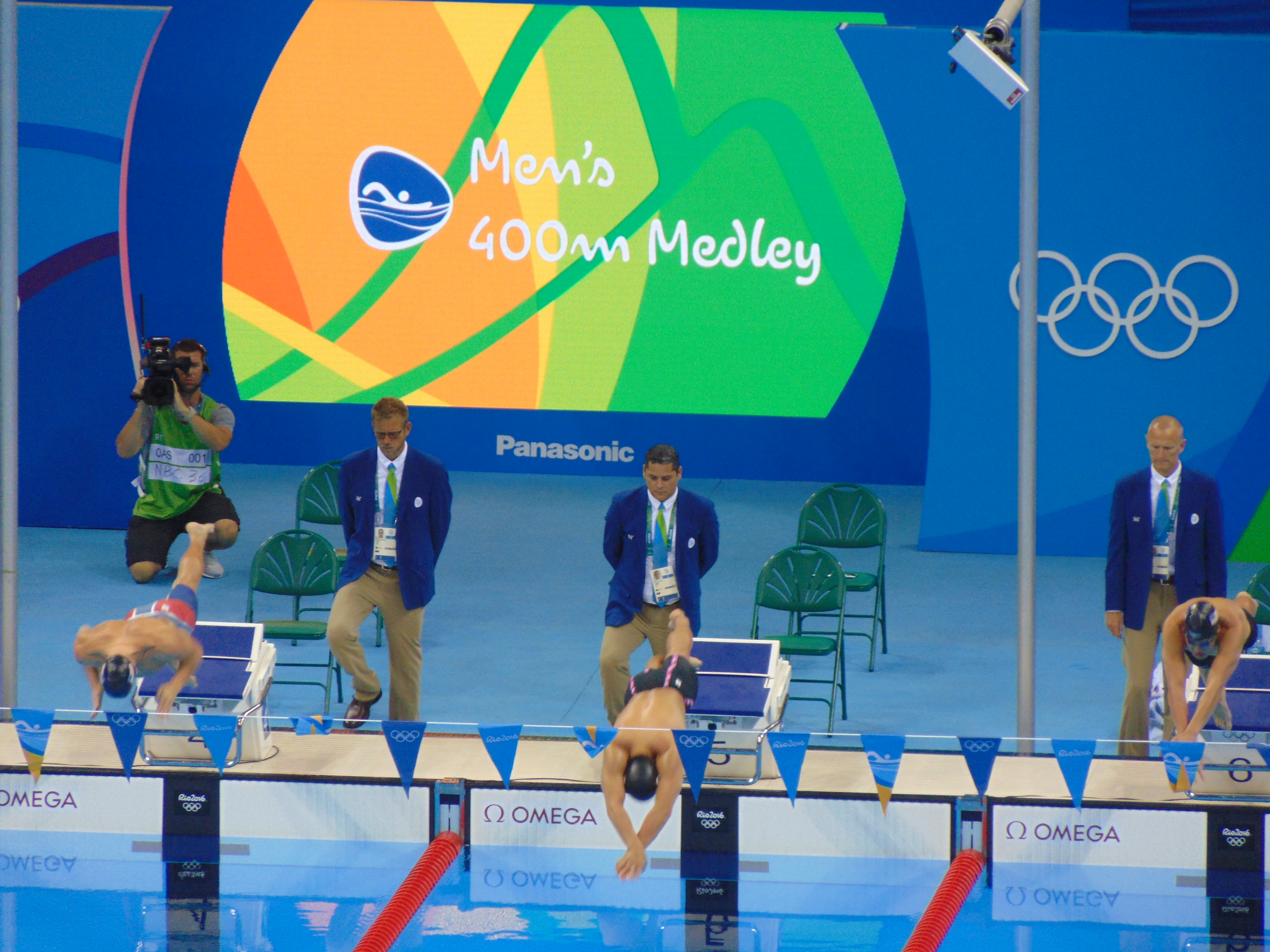 Rio 2016 - Swimming final session 6 August (SW002)